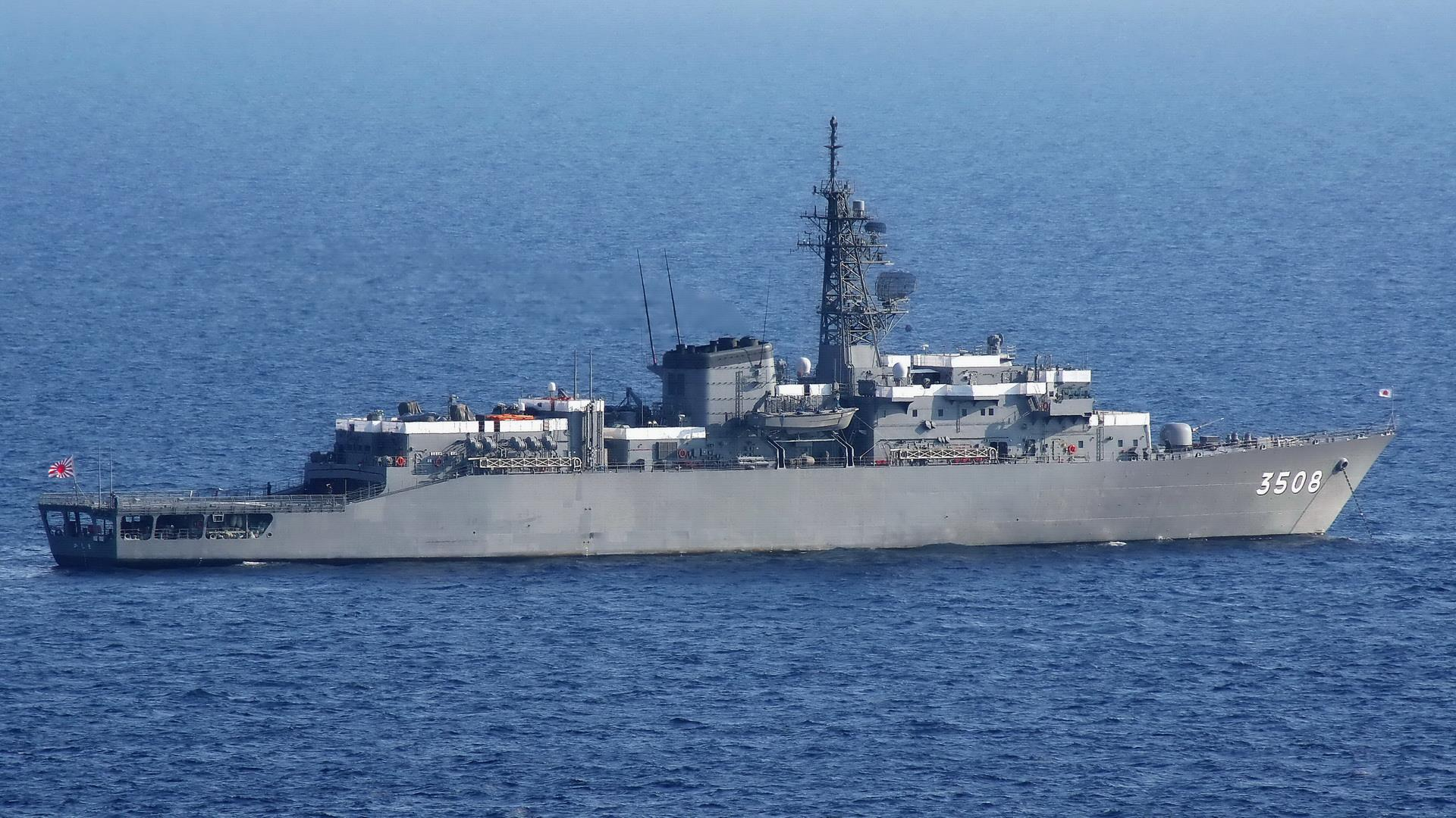 Japanese training ship Kashima as seen in Split, Croatia, on 2013-09-02, CEST 17:04:58; The position of the ship was N 43°29'48", E 16°25'40" ; Heading ~260°